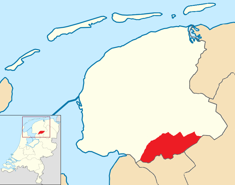 Weststellingwerf, municipality in Friesland, Netherlands